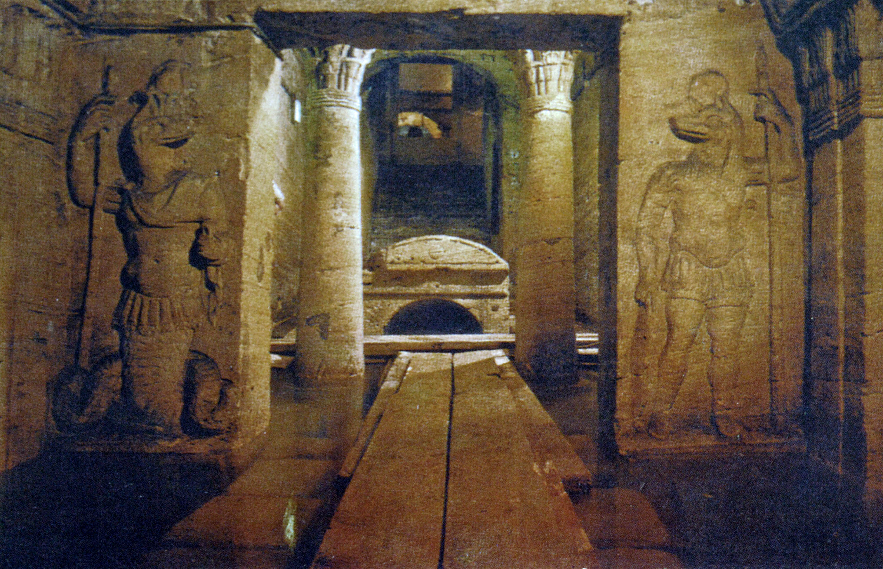 ENTRANCE TO A BURIAL CHAMBER FLANKED BY EGYPTIAN GODS